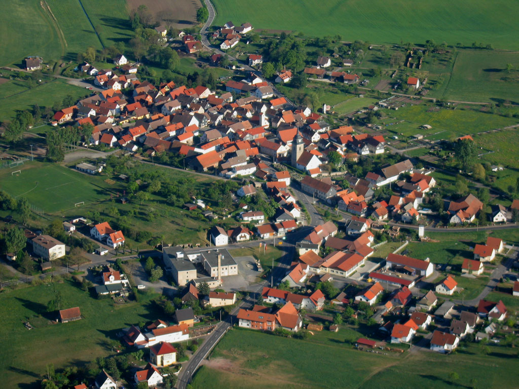 View over Westhausen b. Hildburghausen